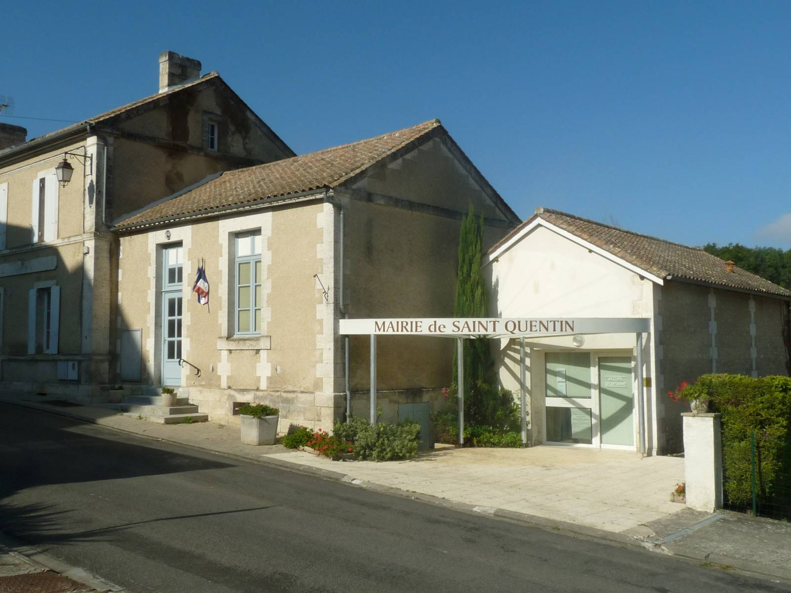 town hall